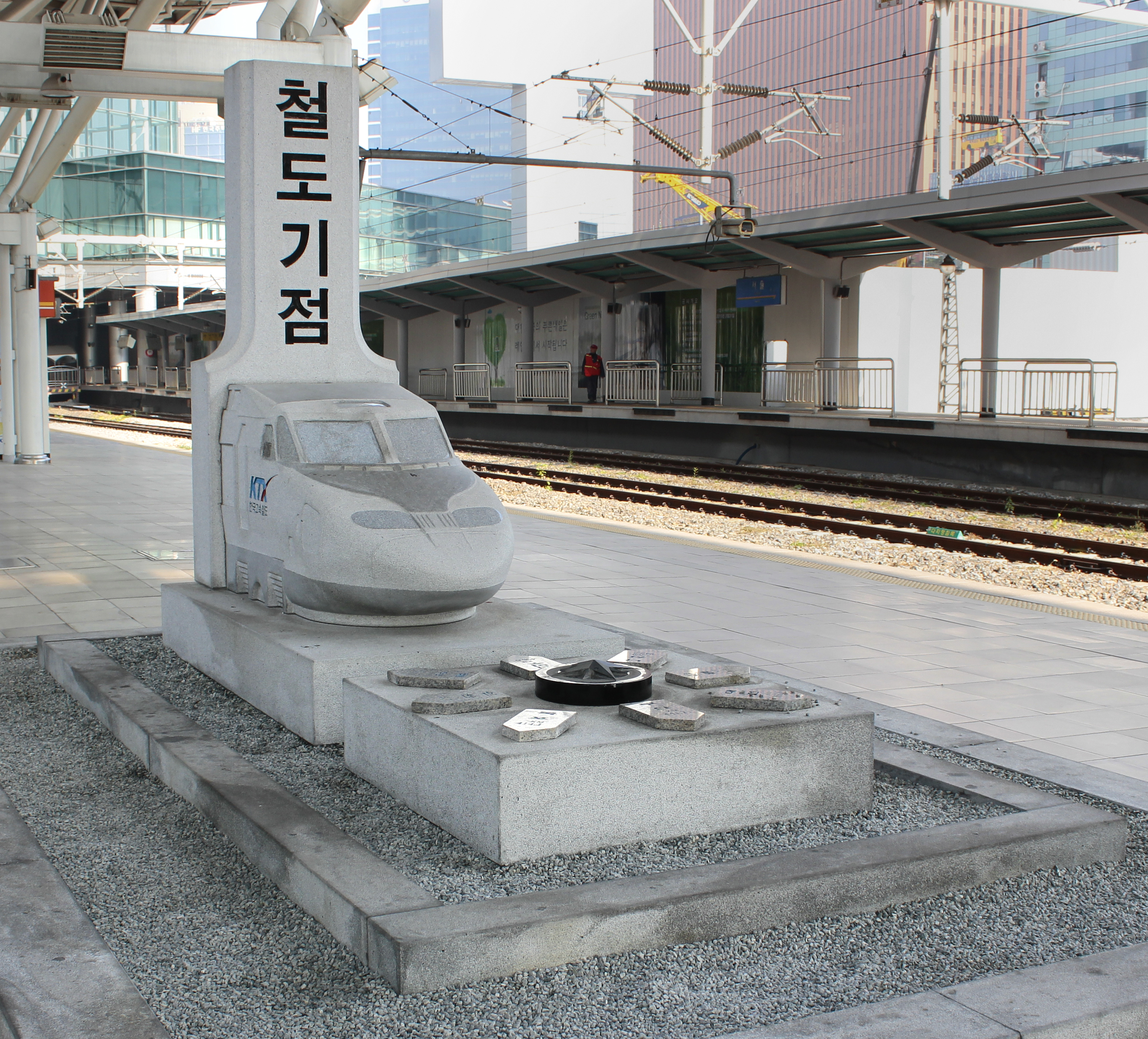 @Seoul Station, Yongsan-gu, Seoul, South Korea